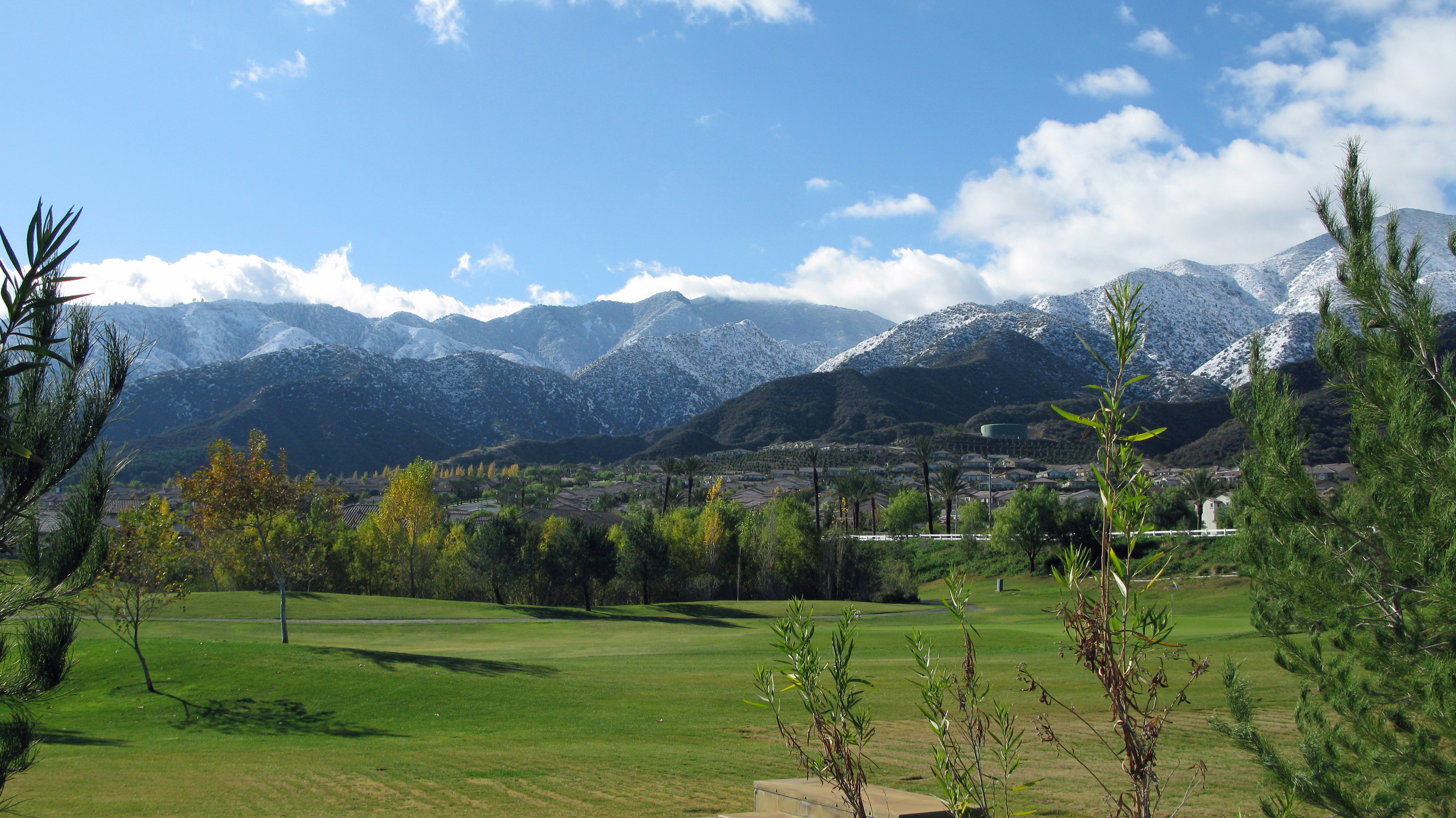 Santa Ana Mountains: aka Cleveland National forest . Center mountain with a cloud covering is Santiago Peak. Orange County, California